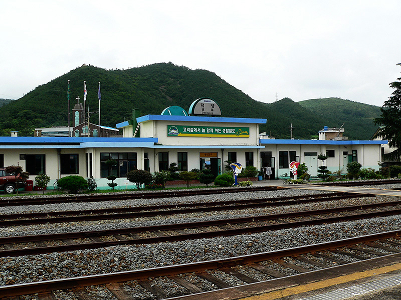 KORAIL Deokyang Station